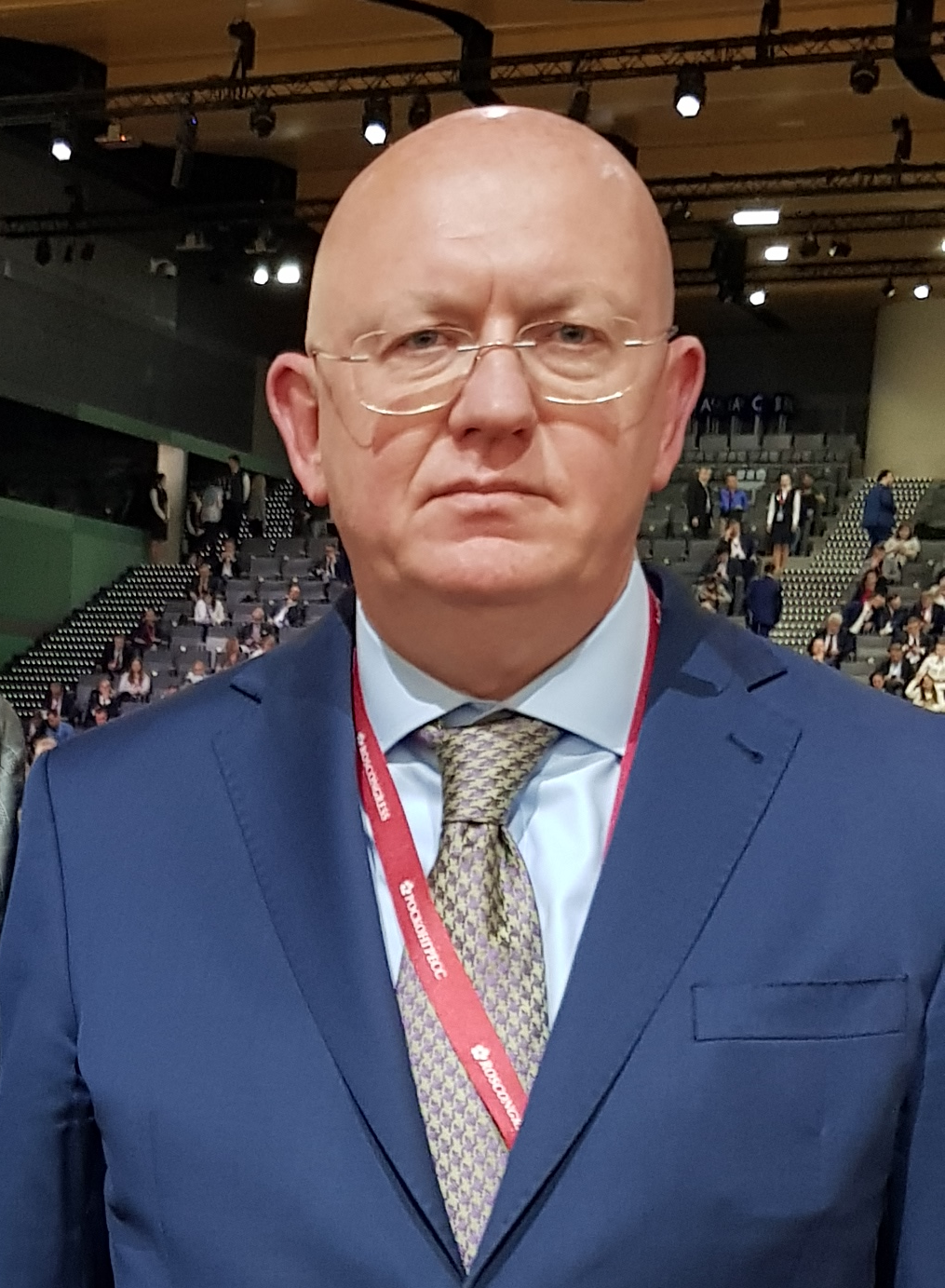 Vasily Nebenzya at the 2019 St. Petersburg International Economic Forum